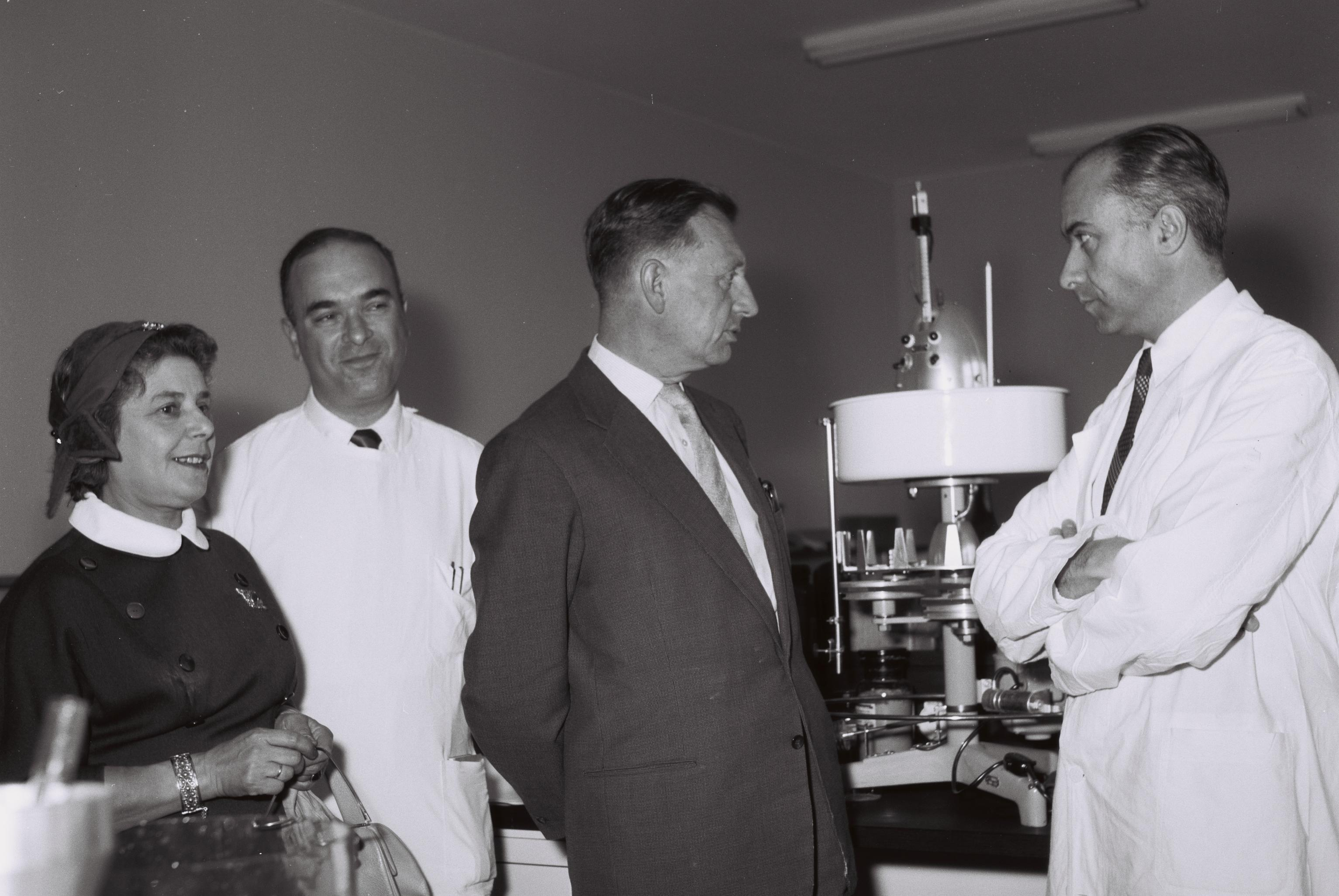 DUTCH MIN. OF HEALTH AND WELFARE MR. SURHOFF WITH PROF. DE FRIES OF BELINSON HOSPITAL IN PETACH TIKVAH.